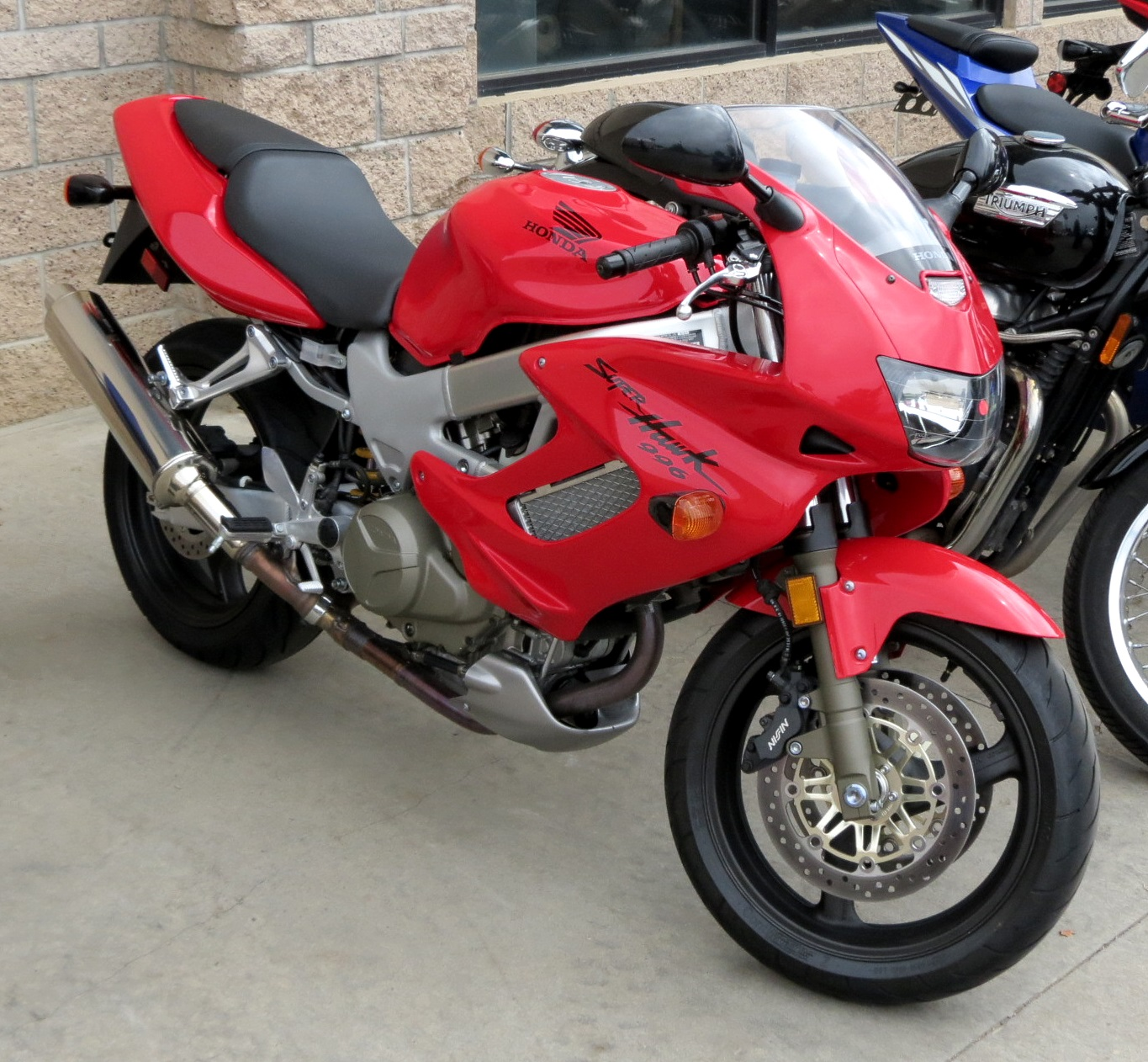 Honda Superhawk 996, Loveland CO / 2013